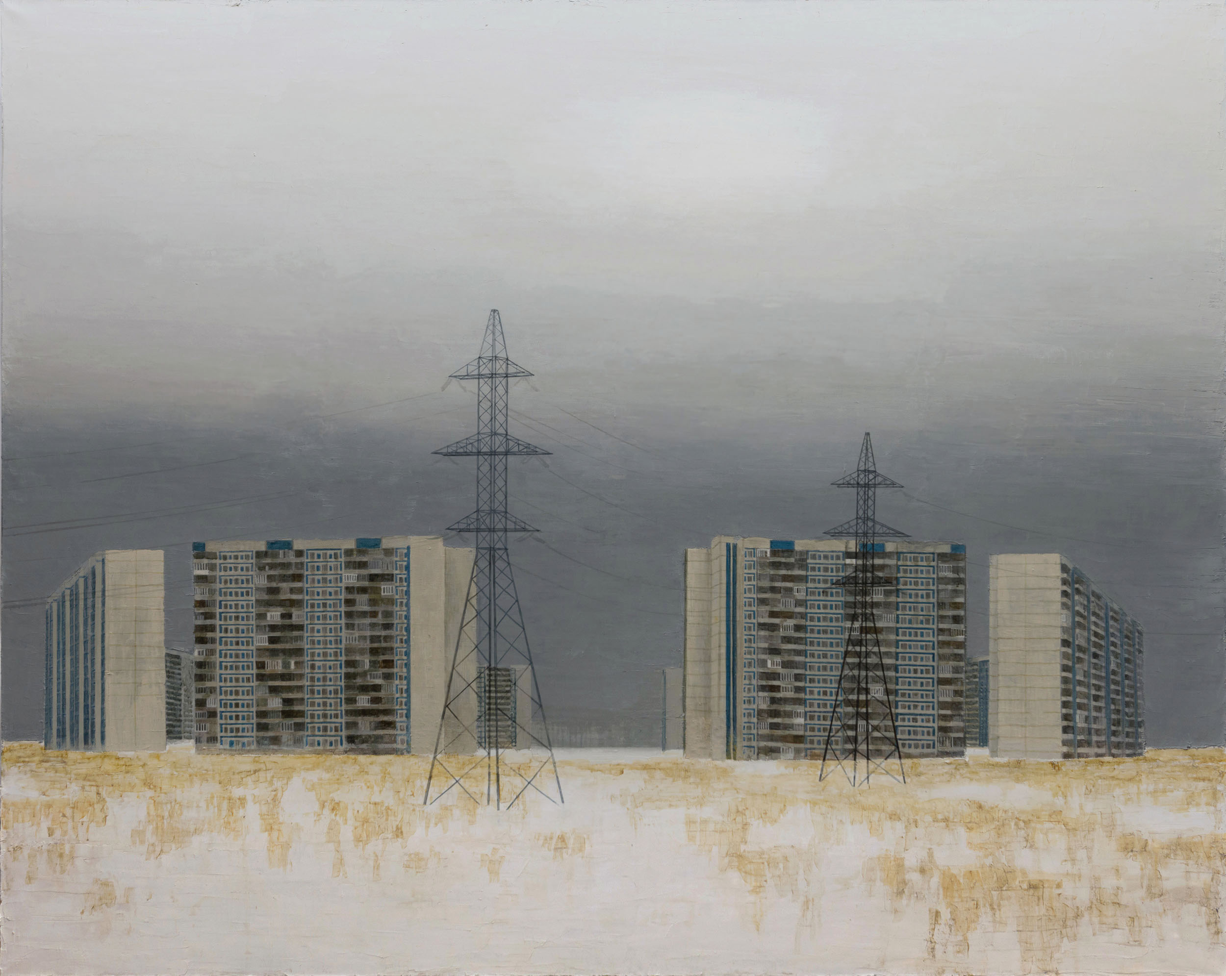 oil on canvas, 200х250cm Moscow Museum of Modern Art